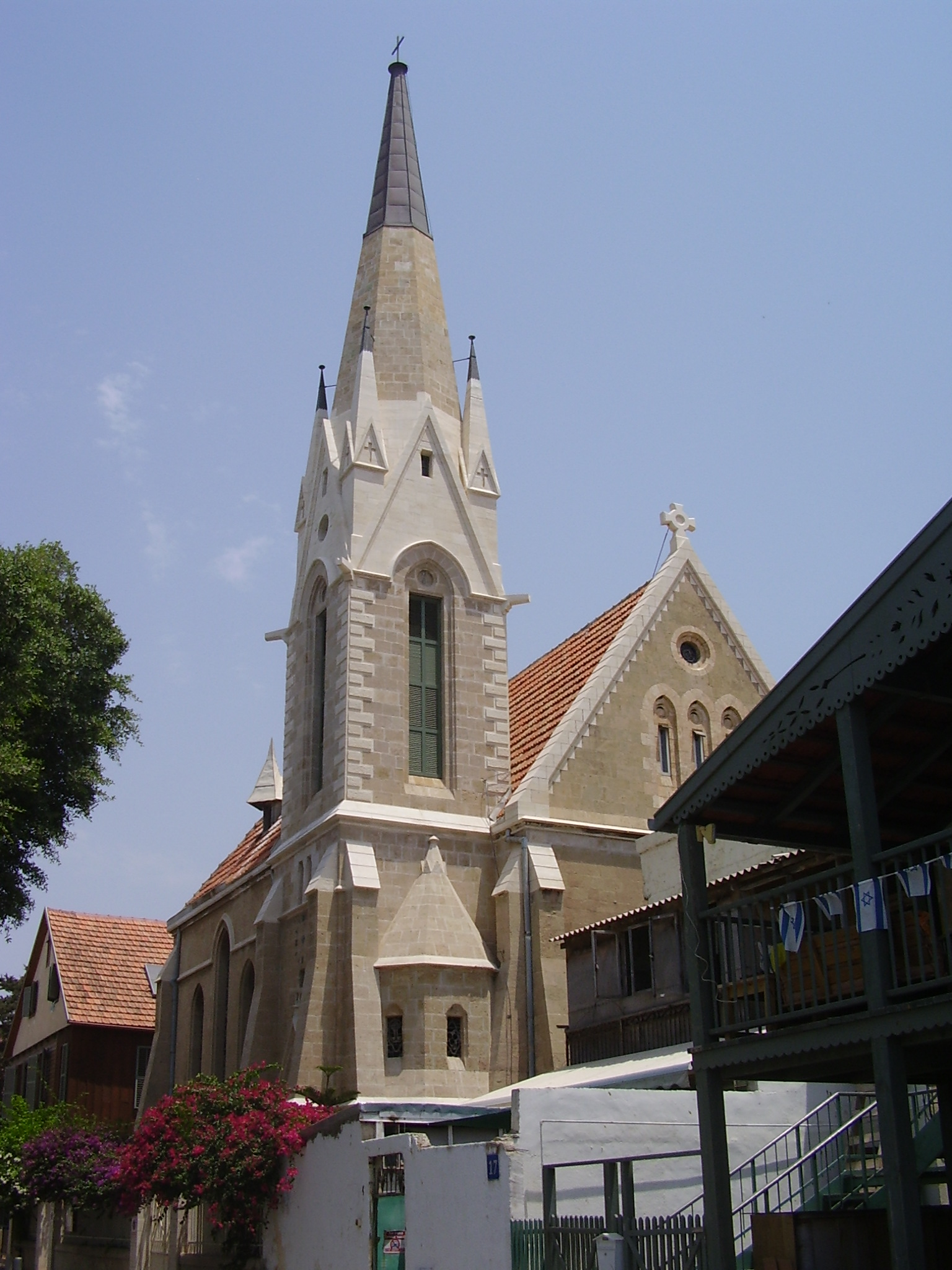 emmanuel church in jaffa